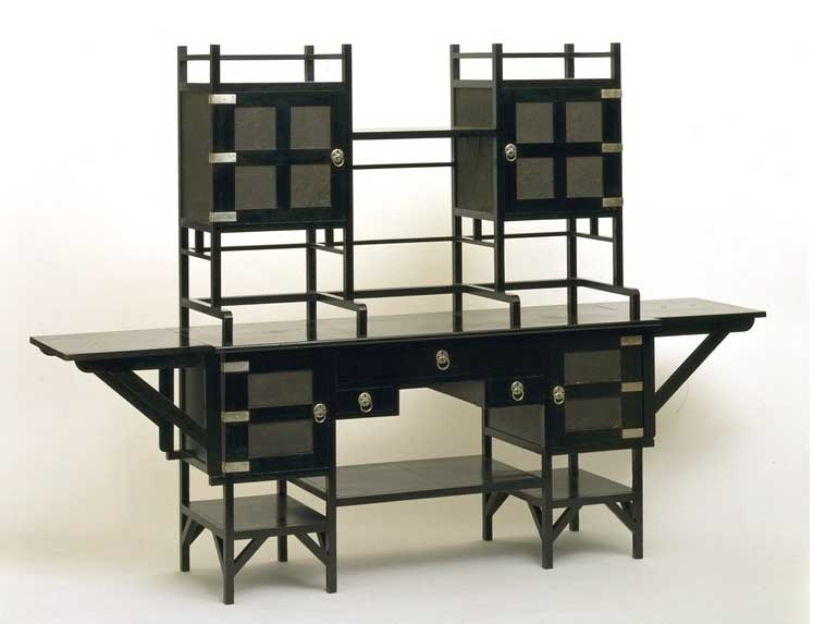 Sideboard, 1867-1870, Edward William Godwin (1833-80) V&A Museum no. CIRC.38:1 to 5-1953 Techniques - Mahogany, ebonised, with silver-plated handles and inset panels of embossed leather paper Place - London, England Dimensions - Height 181 cm, Width 256 cm, Depth 56 cm